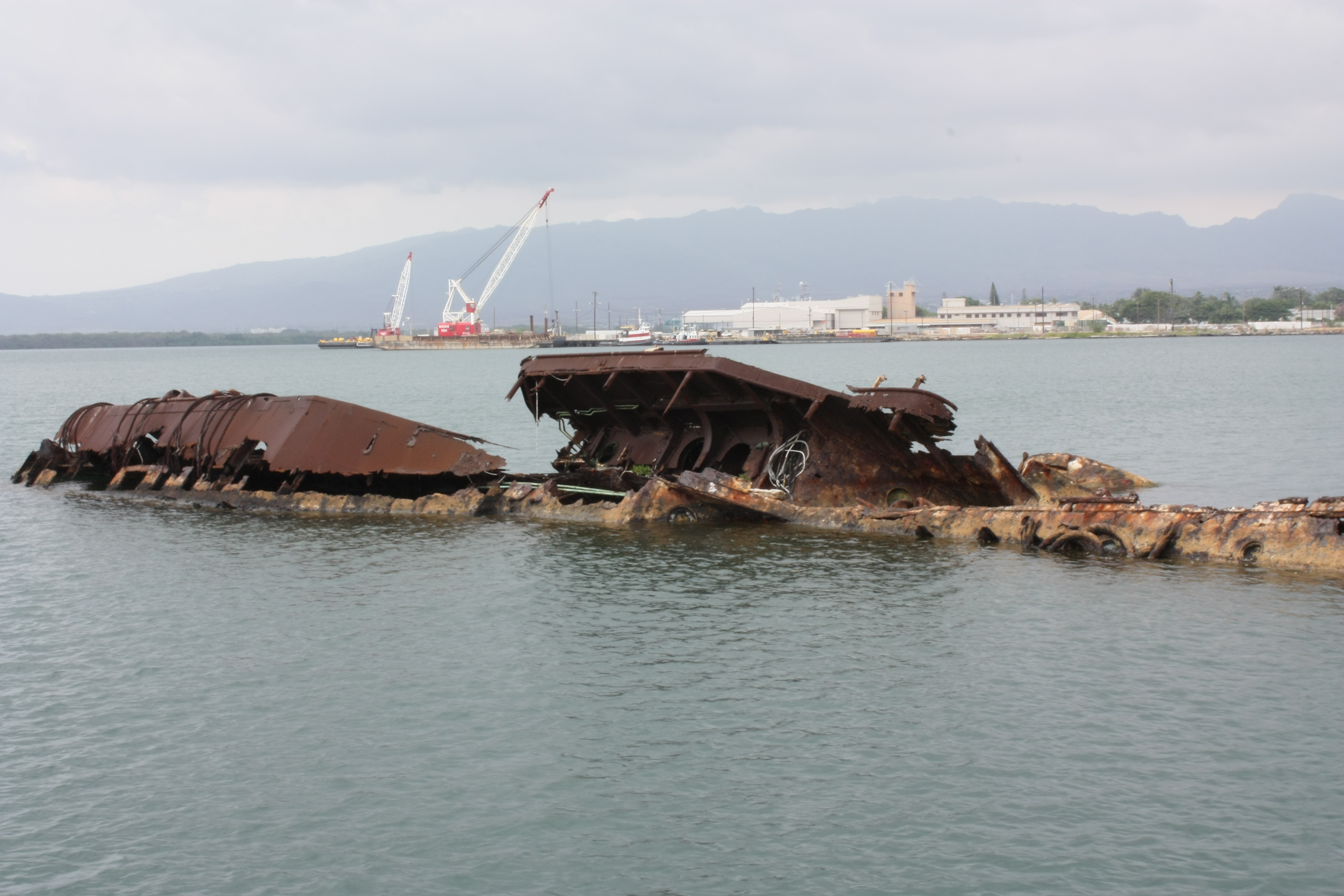 Remnants of the battleship USS Utah (BB-31) at Pearl Harbor, Hawaii, USA in 2010.